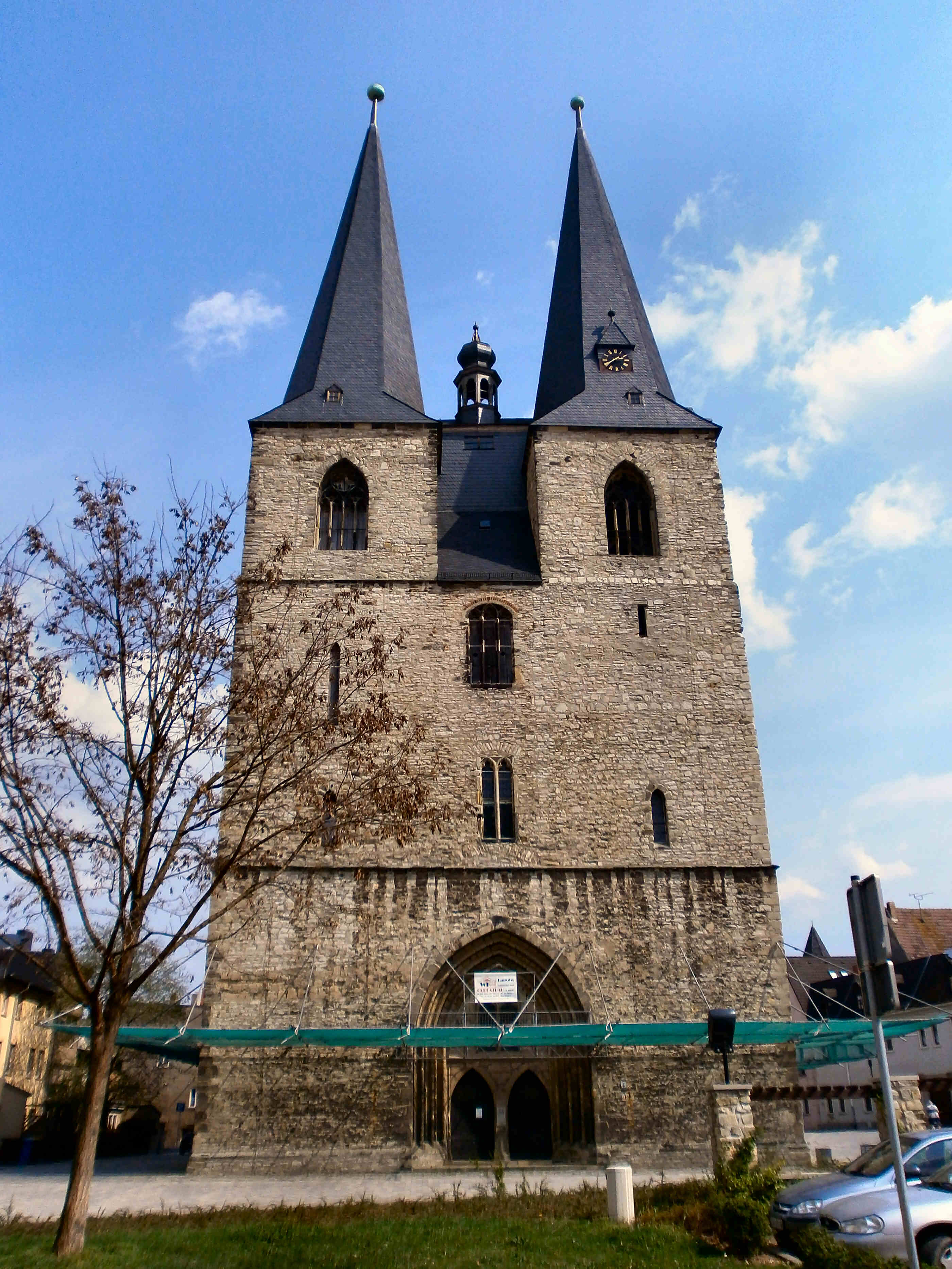 St.-Stephani Church